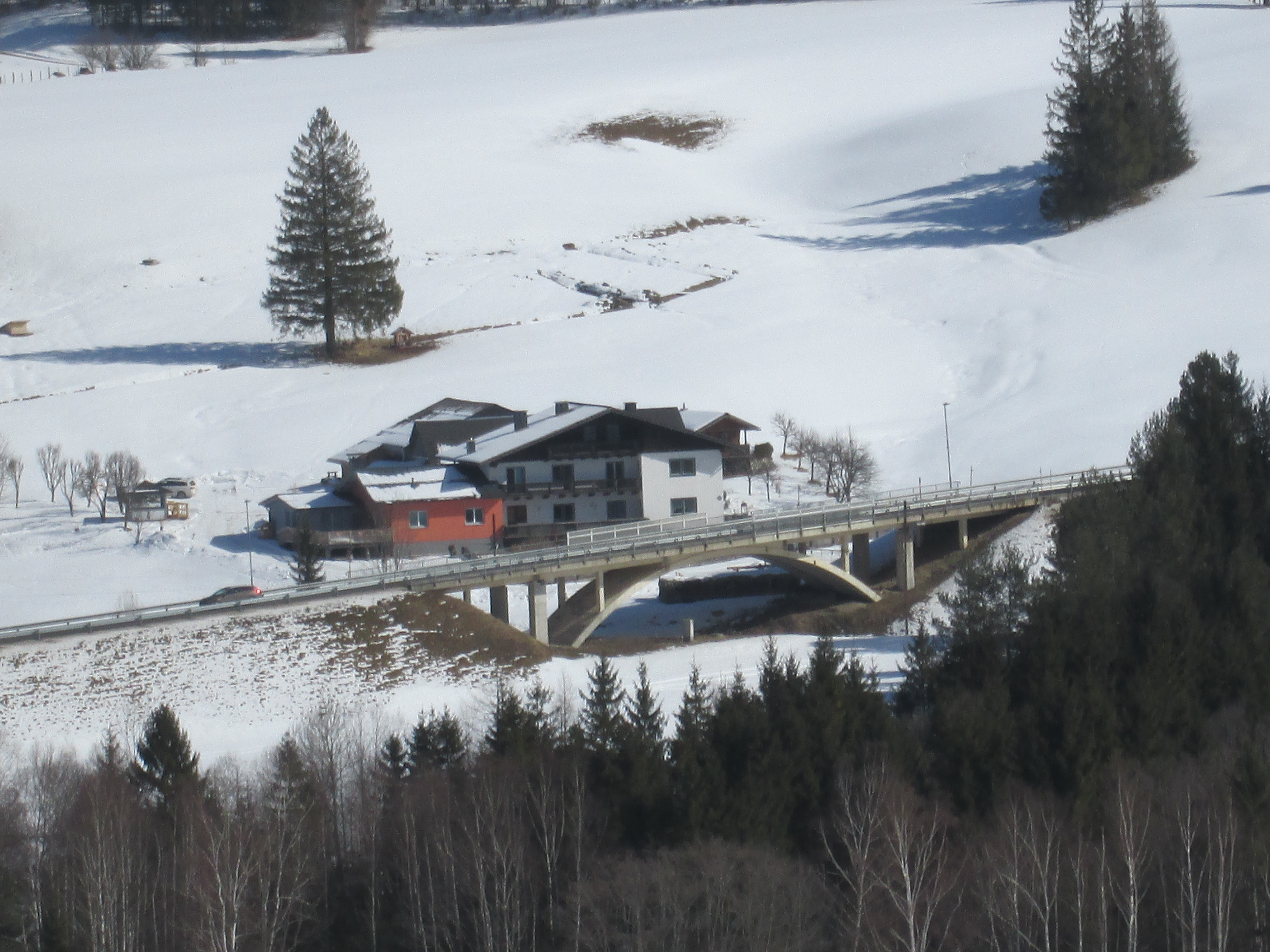 Bridge at B 20 Mariazeller Straße at Mitterbach am Erlaufsee